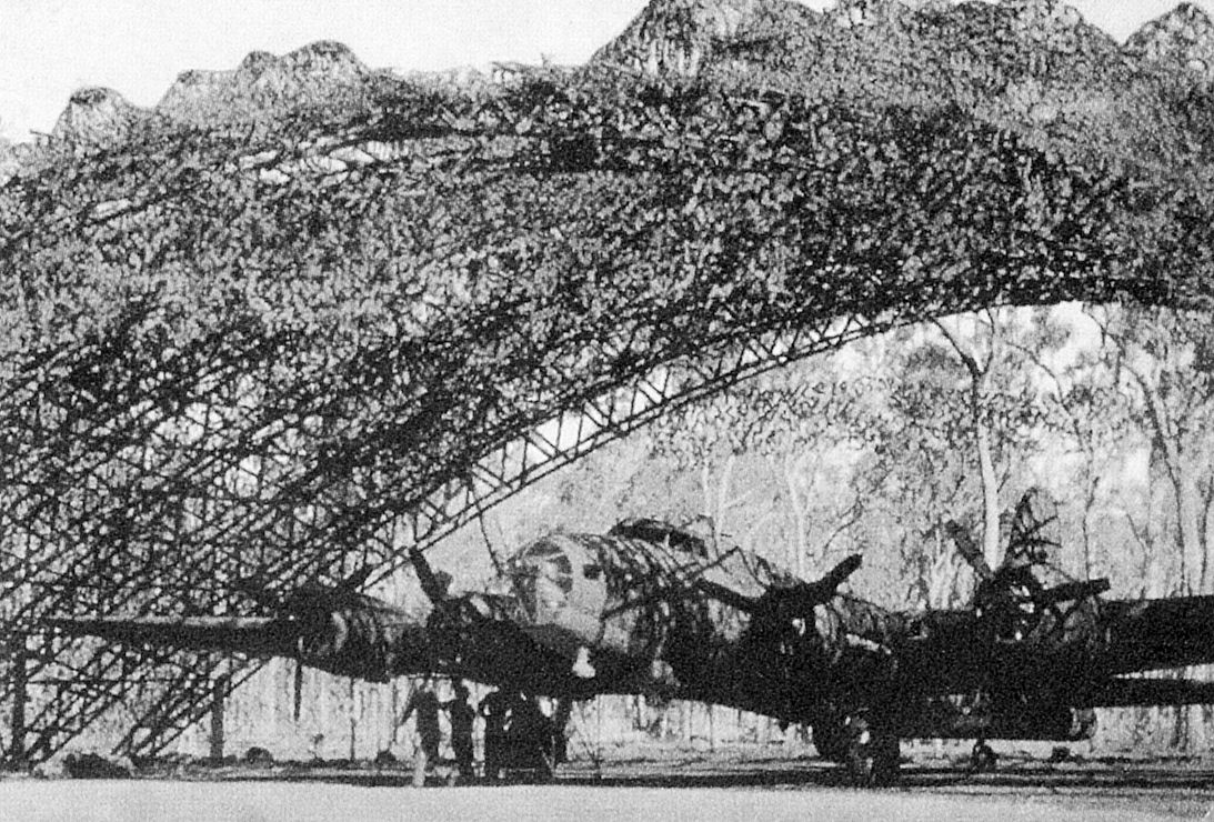 19th Bombardment Group B-17 parked in a camouflaged blister hangar probably at Batchelor Field in the Northern Territory, Australia, in early 1942. At the time, Japanese bombers were attacking the Darwin Area and the camouflage was necessary to prevent the bombers from being sighted by Japanese reconnaissance planes.